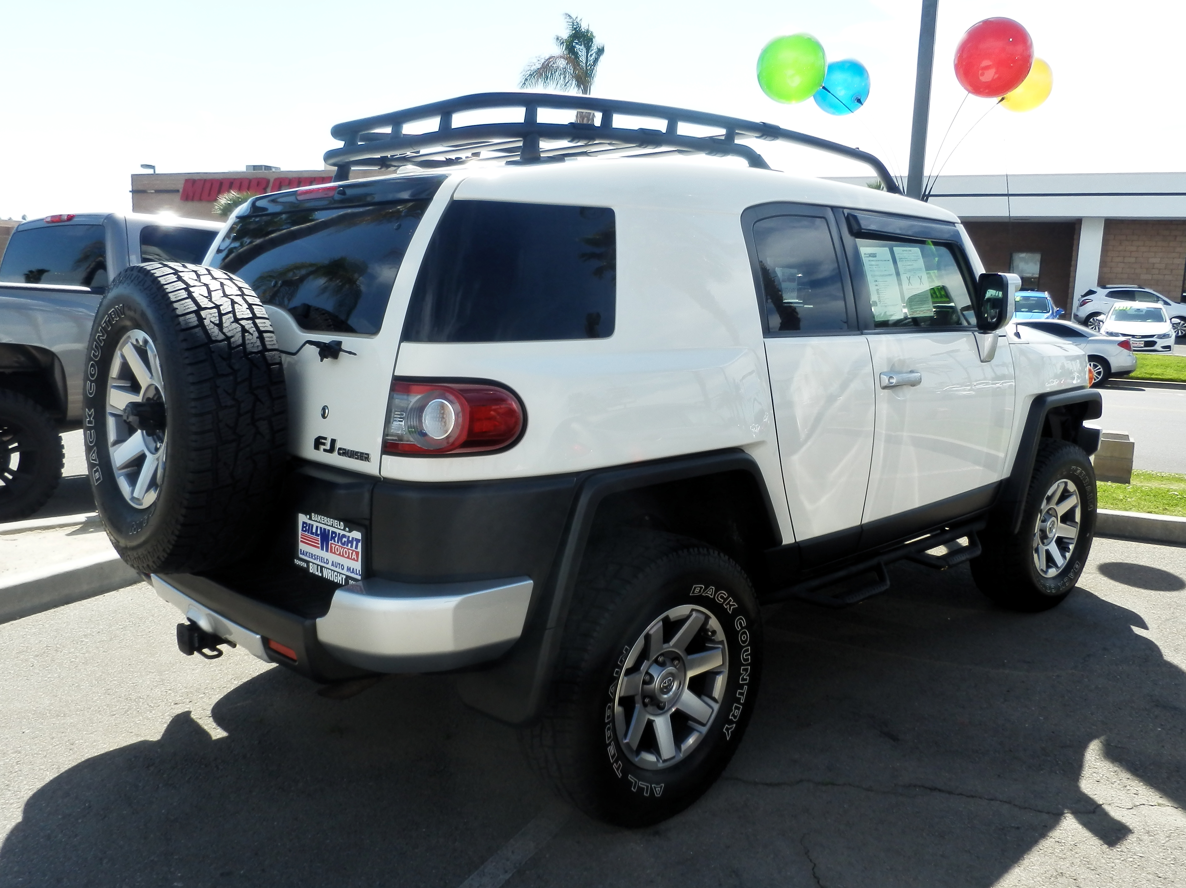 Toyota FJ Cruiser in Bakersfield